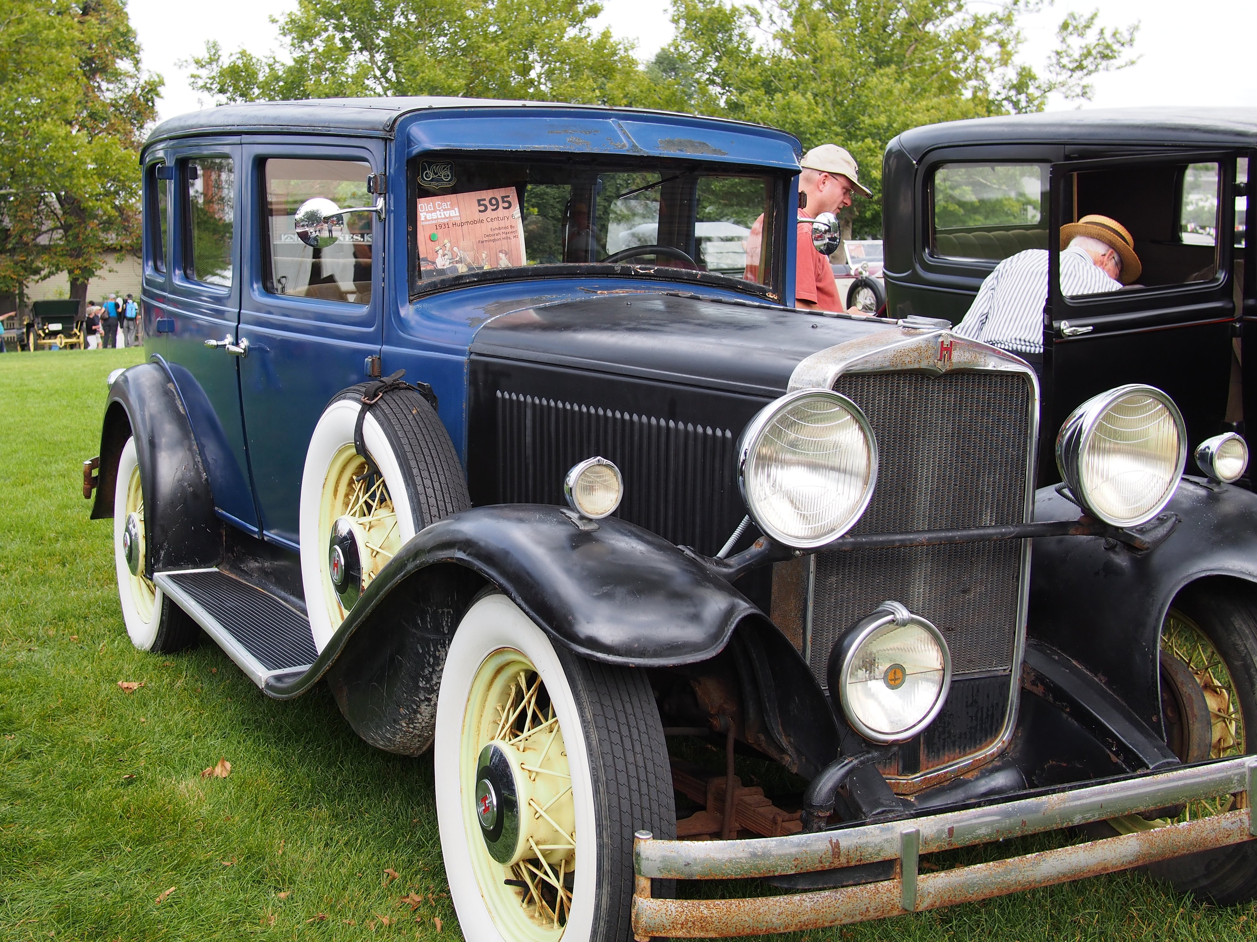 1931 Hupmobile Century 6